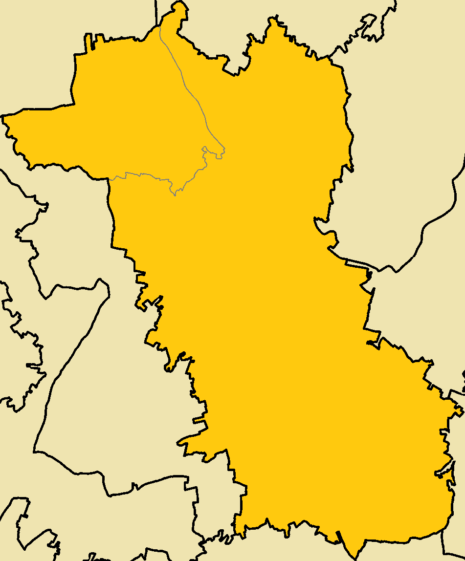 Dali Municipality with quarters.